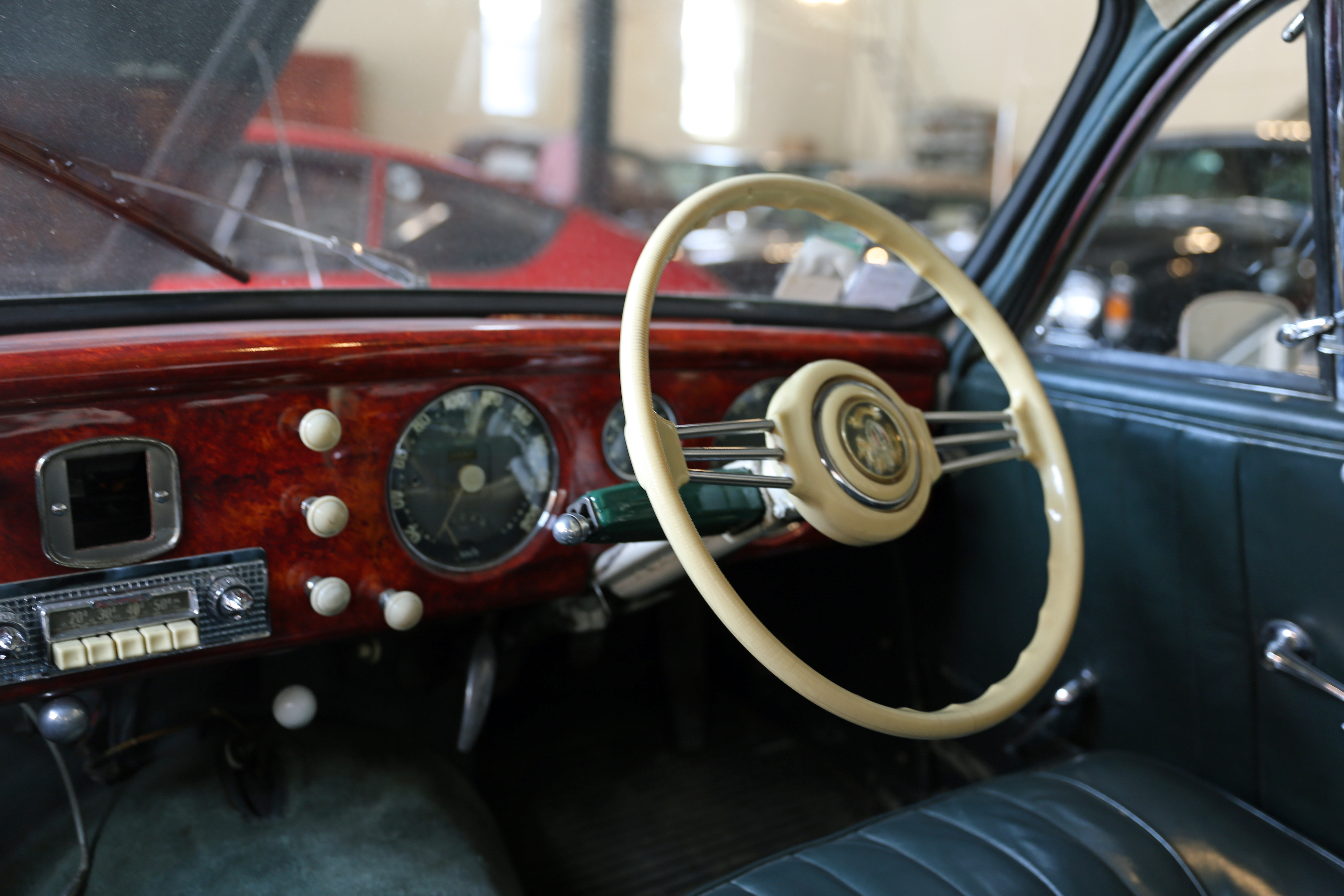 Dashboard of a 1954 Salmson 2300 Coupé, the only one in the United States. 88 remain worldwide, nearly all of them located in France. RHD, as was common for continental luxury cars of the interwar and immediate postwar eras. Cotal electromagnetically operated ZF transmission.